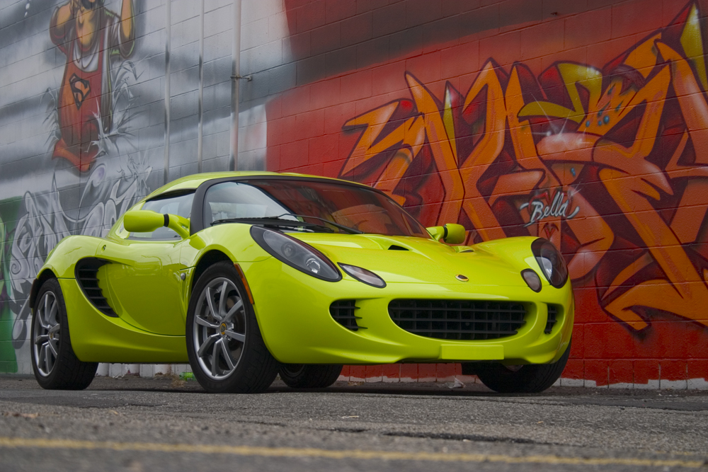 Krypton Green Lotus Elise alongside the new Spinellis Pizza in Louisville, KY... Some damn fine Graffiti art.